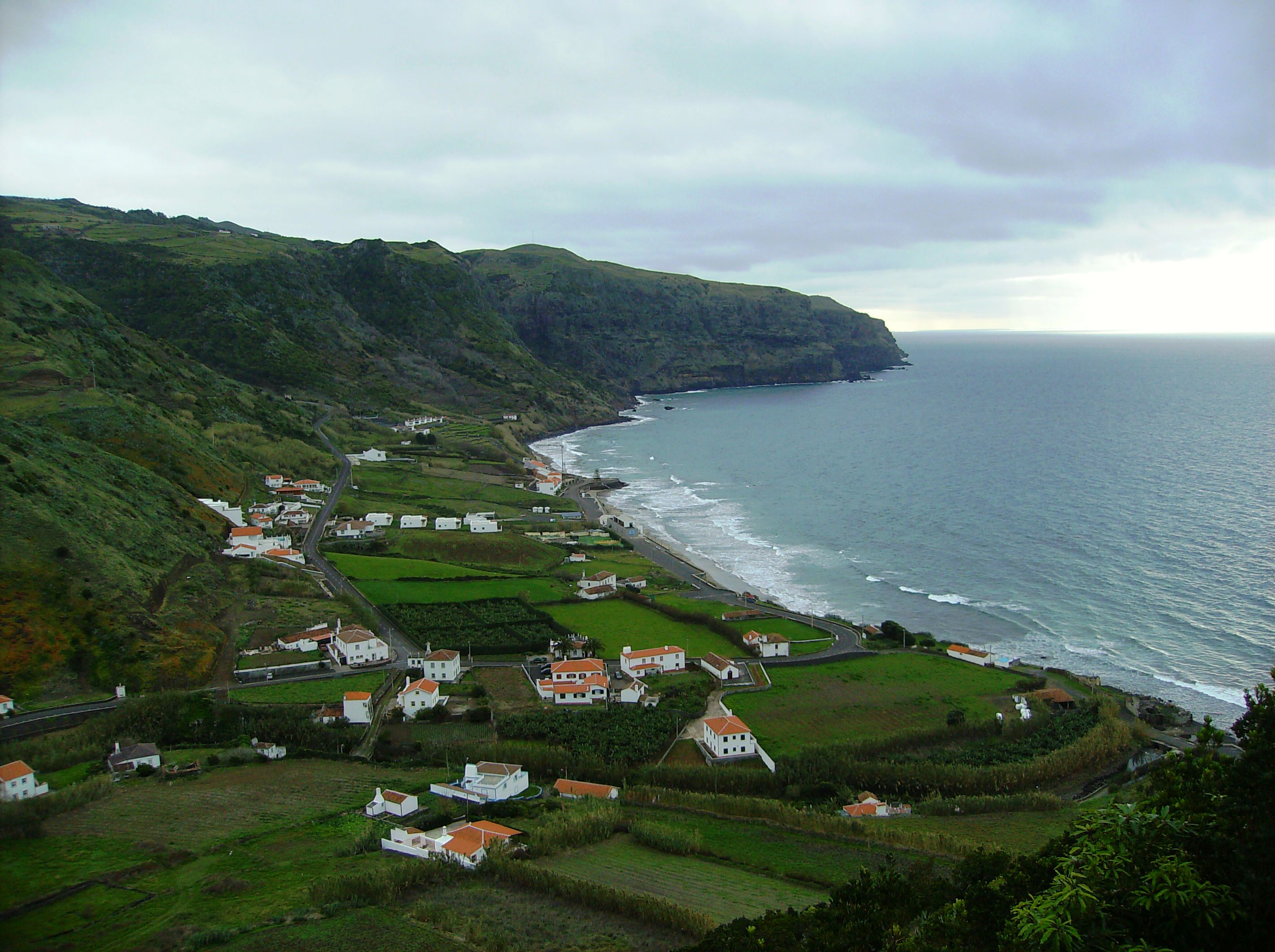 The Bay of Praia Formosa, Almagreira, municipality of Vila do Porto, island of Santa Maria, Azores (Portugal)